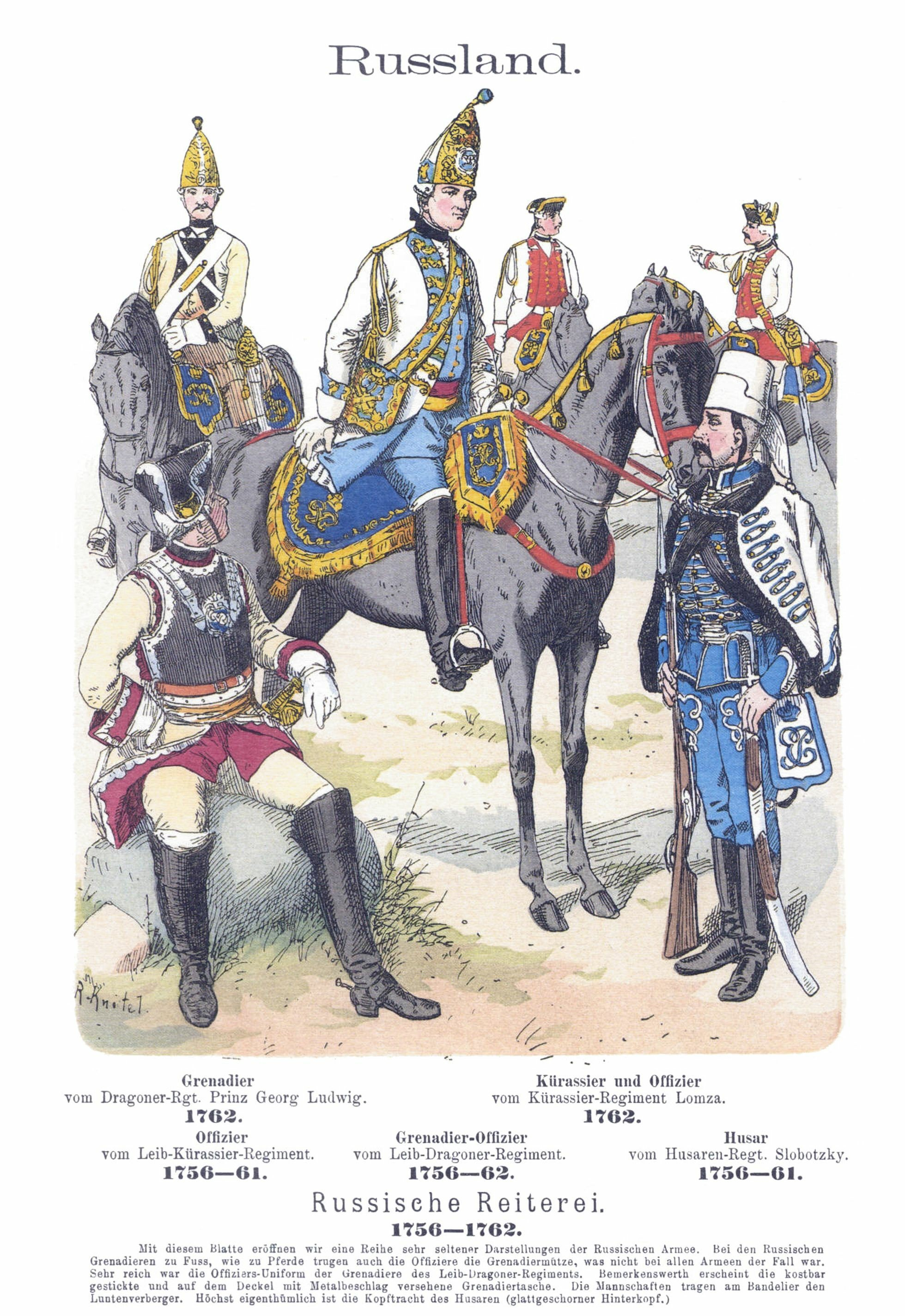 Rußland. Russische Reiterei 1756-1762